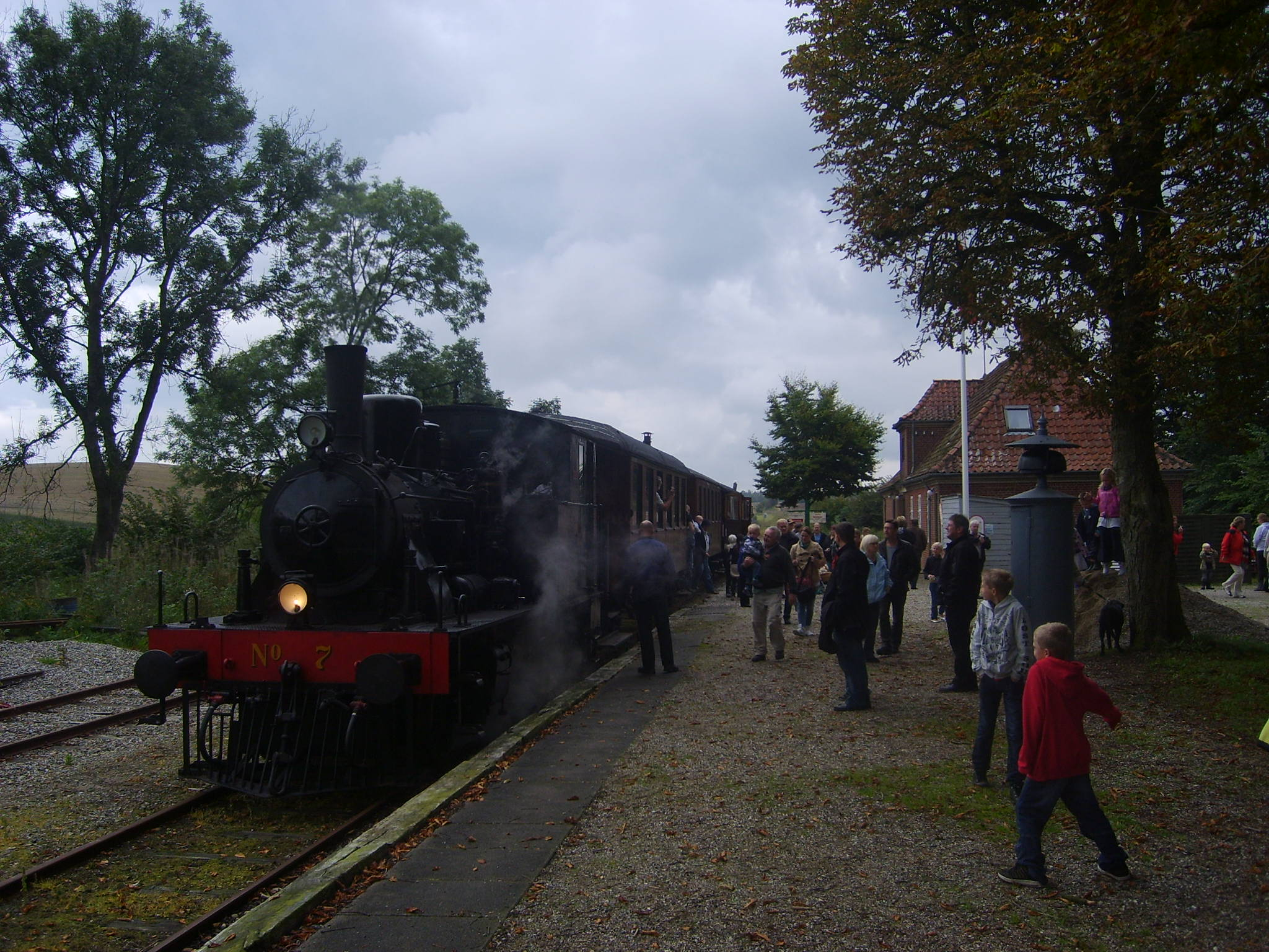 Tourist train of Mariager-Handest Vintage Railroad after arrival in Handest, Denmark. The steam engine was made by Henschel & Sohn in Kassel 1909 with factory nr. 9482.